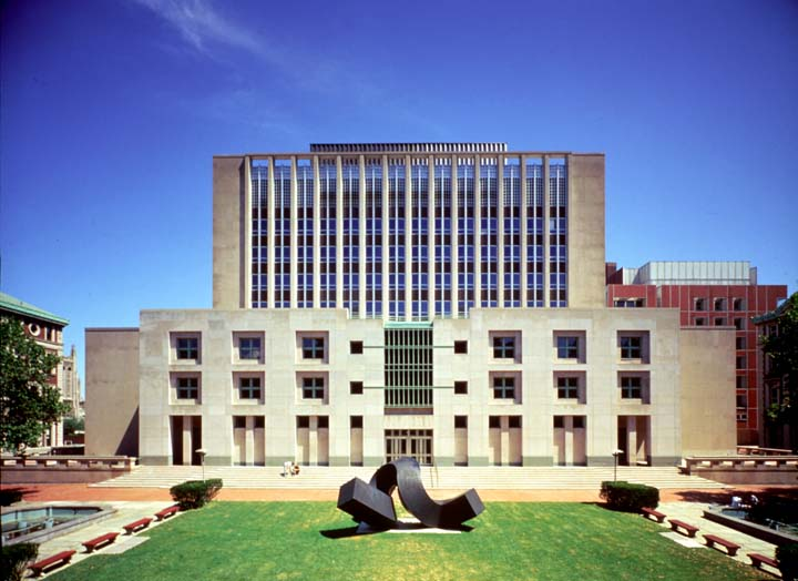 Addition to Uris Hall of Columbia University's School of Business, designed by Peter L. Gluck